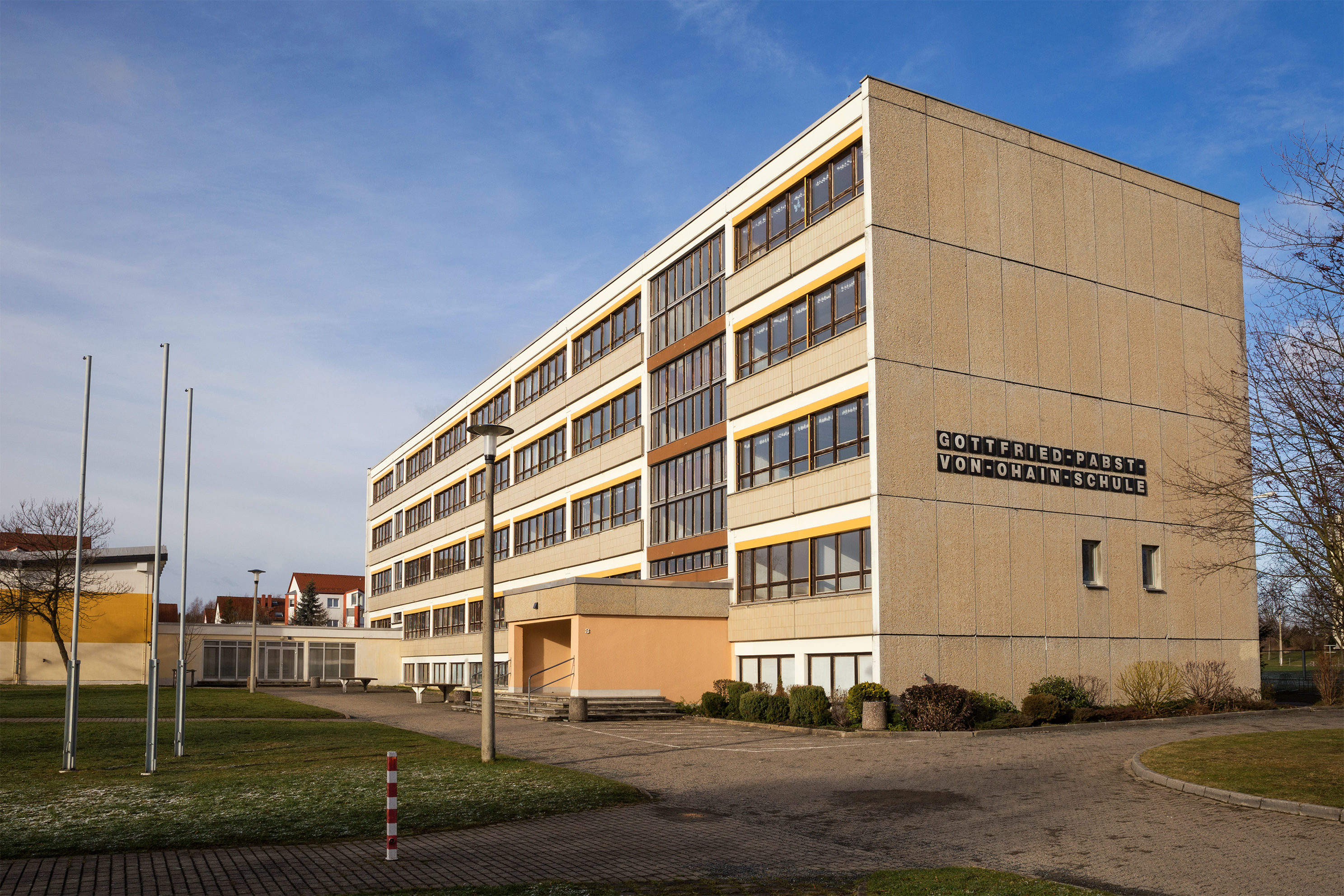 Freiberg, Saxony, school named after Gottfried Pabst von Ohain, address: Kurt-Handwerk-Straße 3